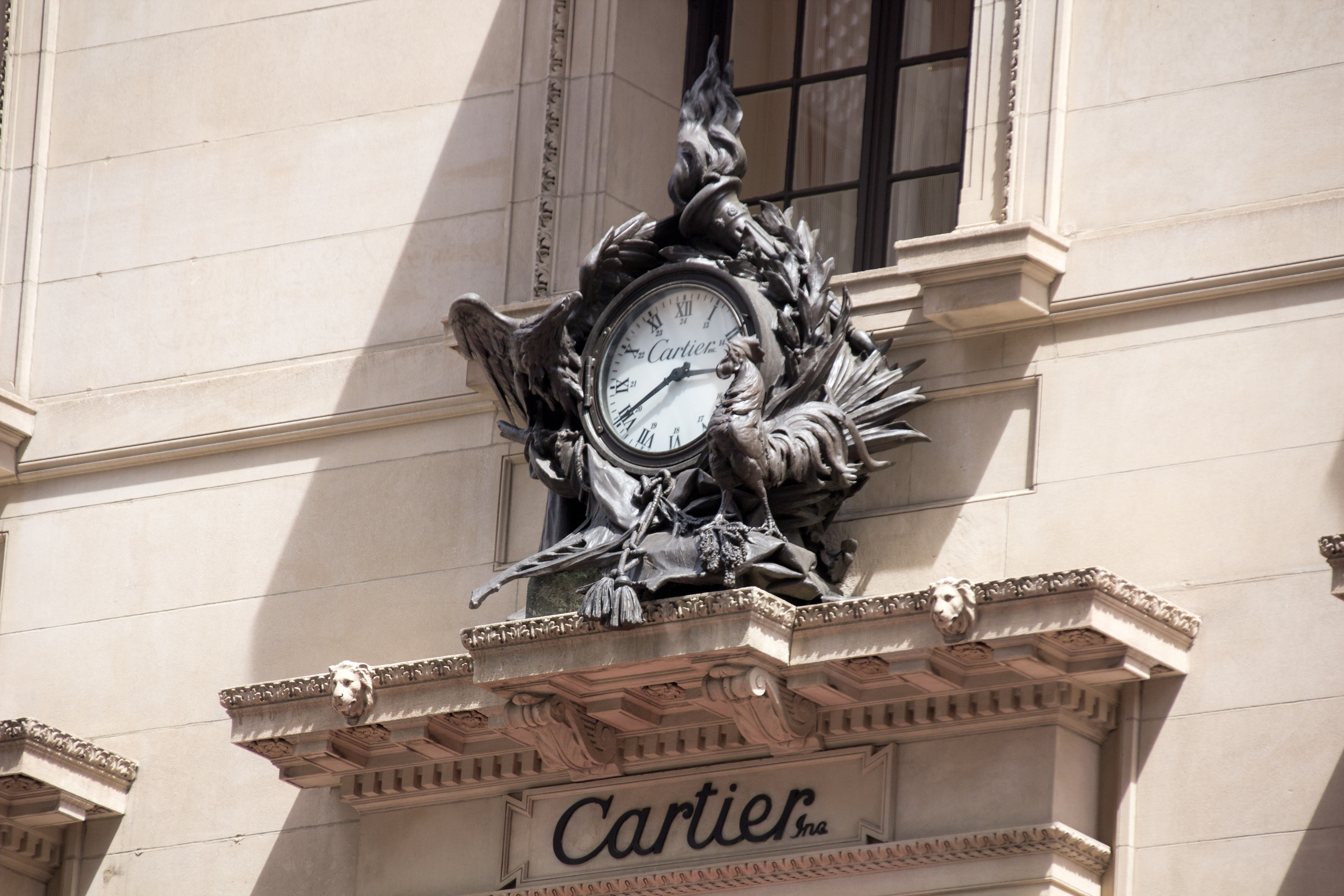 Manhatten, New York City